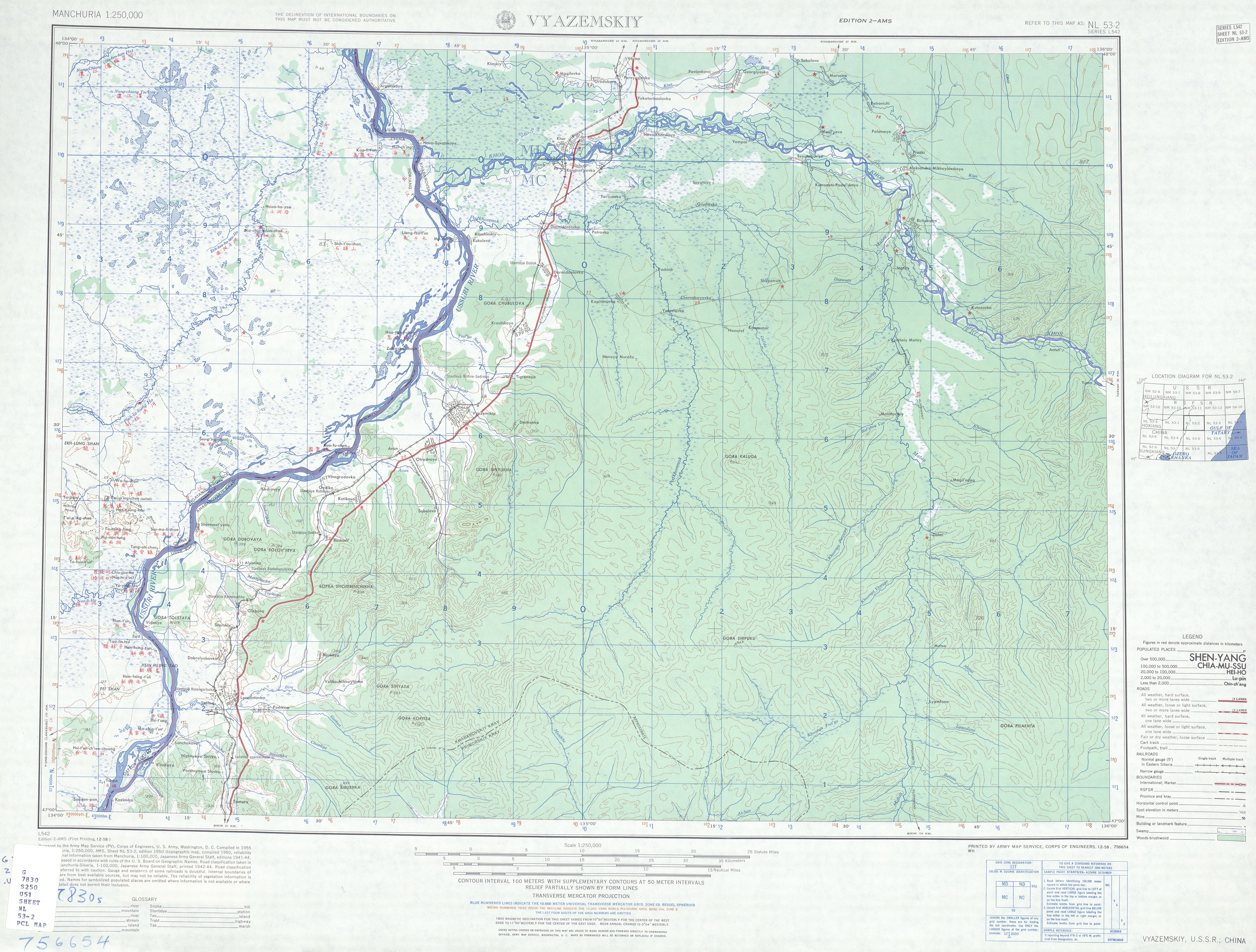 Map of Vyazemsky (Vyazemskiy) area, USSR (present-day Russia)